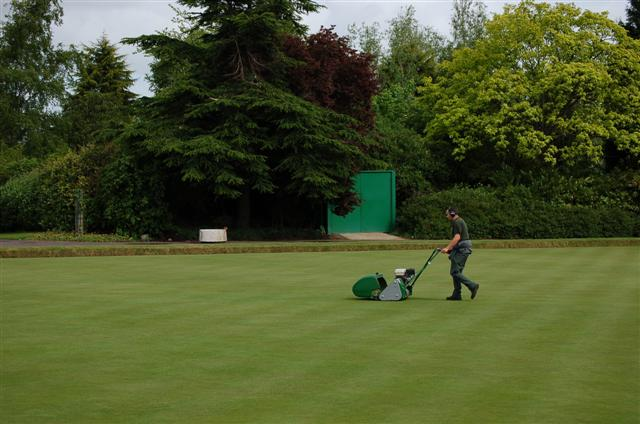 Musgrave Park Cutting the grass on the bowling green.